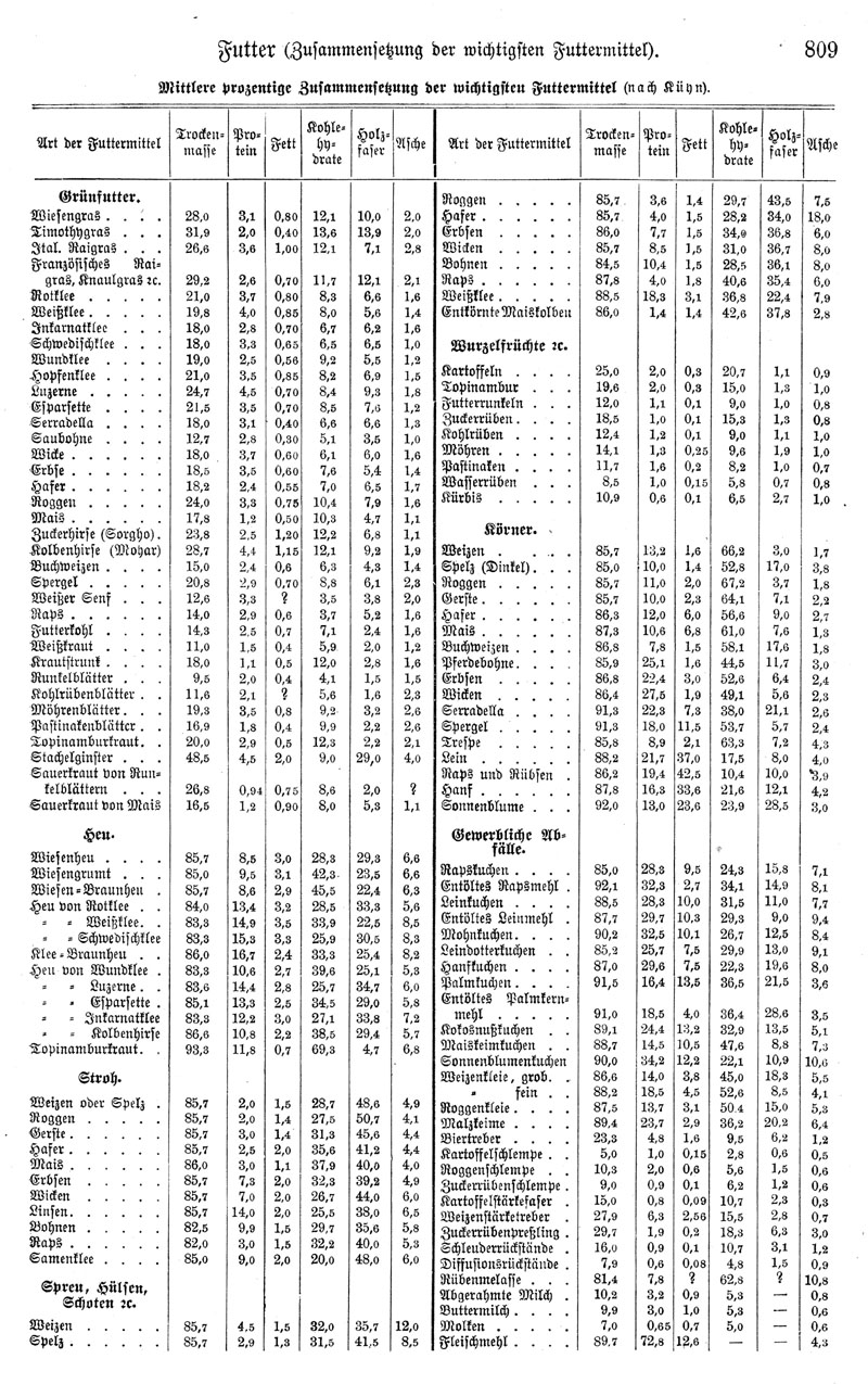 This is page 809 of 1028, in Volume 6 of the German illustrated encyclopedia Meyers Konversationslexikon, 4th edition (1885-1890), fraktur font.